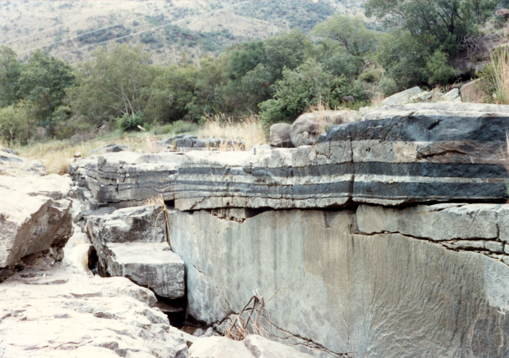 Black Chromitite and grey anorthosite layered igneous rocks in Critical Zone UG1 of the Bushveld Igneous Complex at the Mononono River outcrop, near Steelpoort, Limpopo province, South Africa. Part of the Winterveld Norite-Anorthosite unit of the Dwars River Subsuite of the Rustenburg Layered Suite.